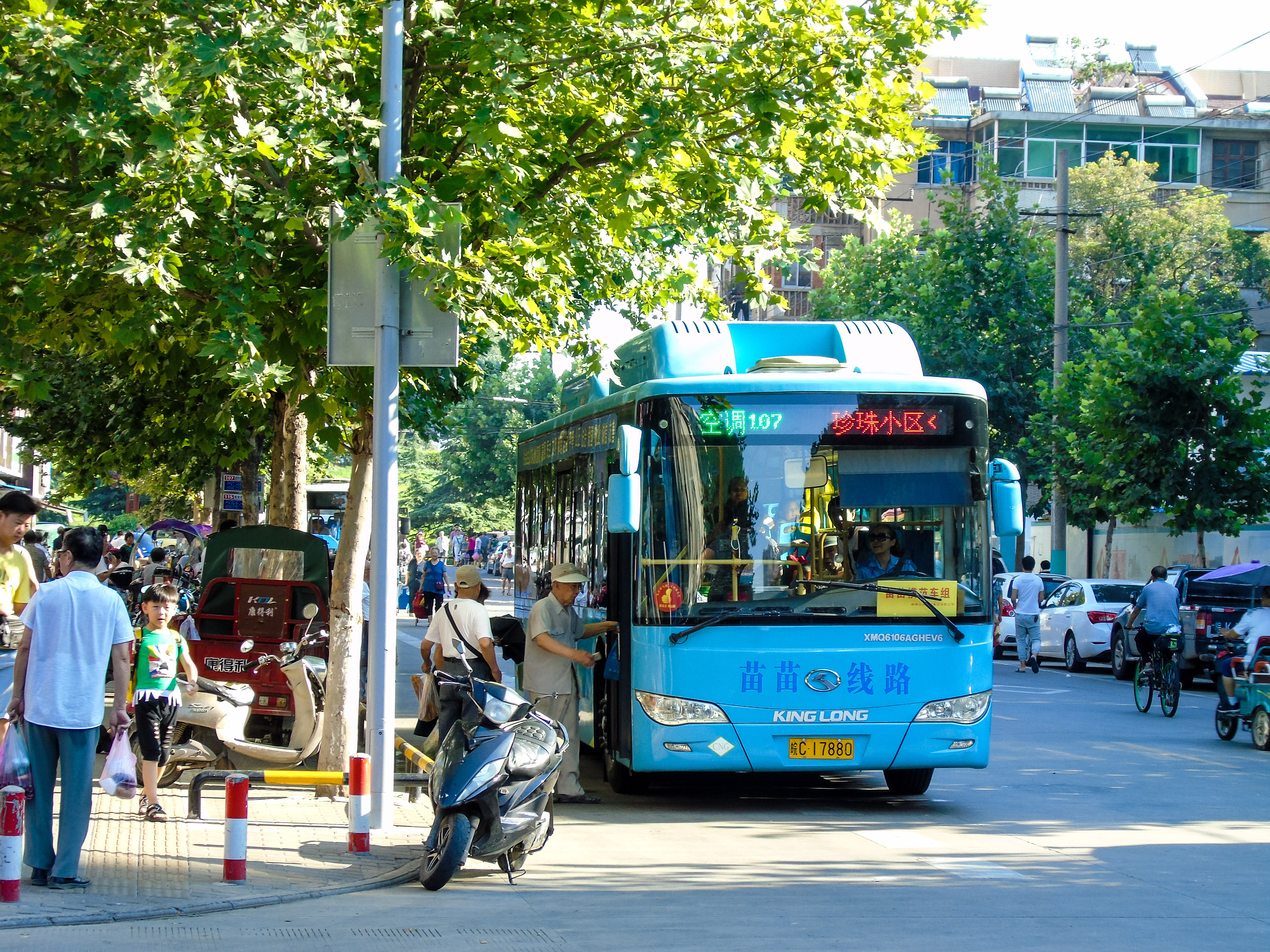 Bengbu Bus No.107 Driven By Yang